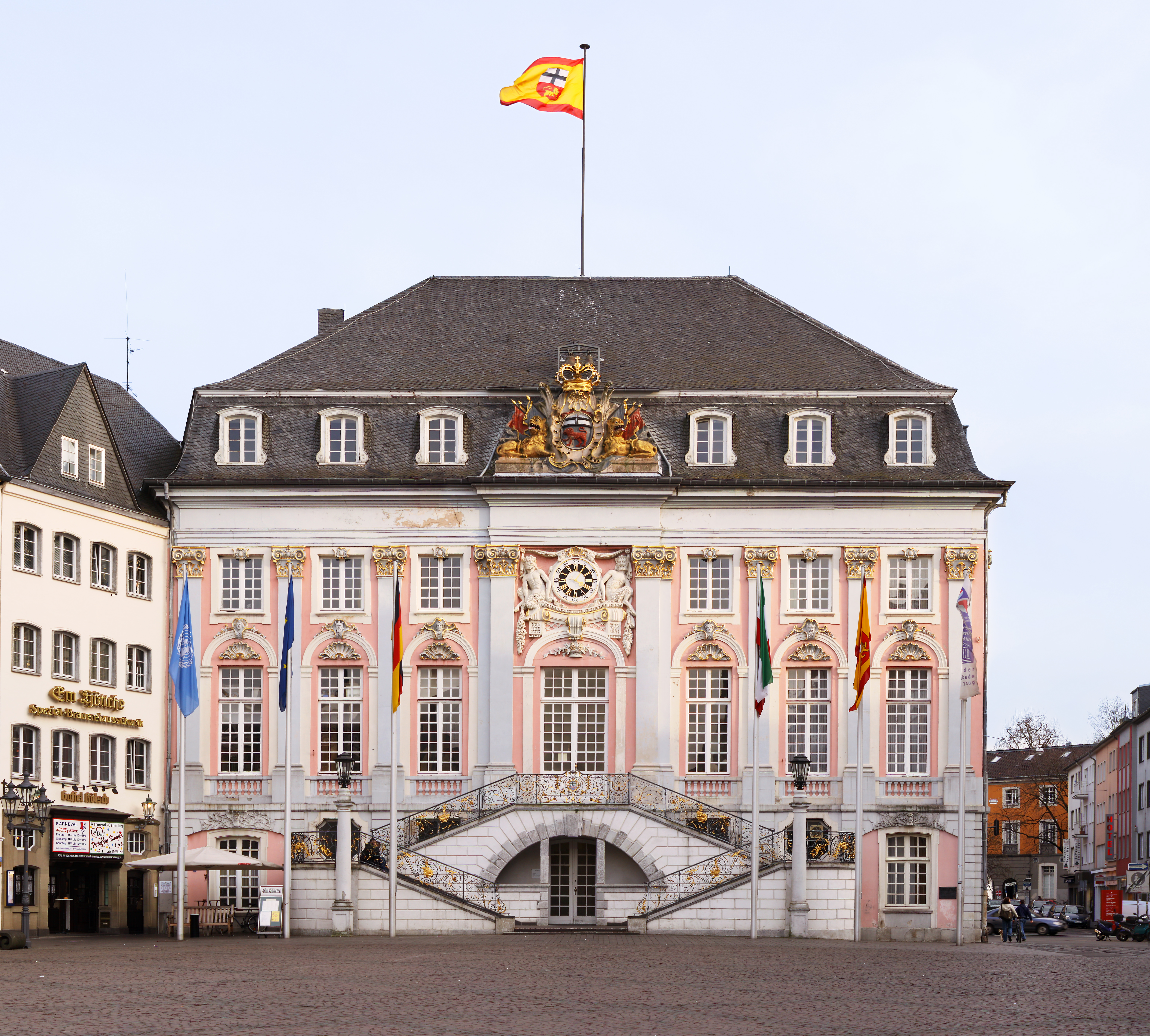 the old city hall in Bonn, Germany (image stitching)